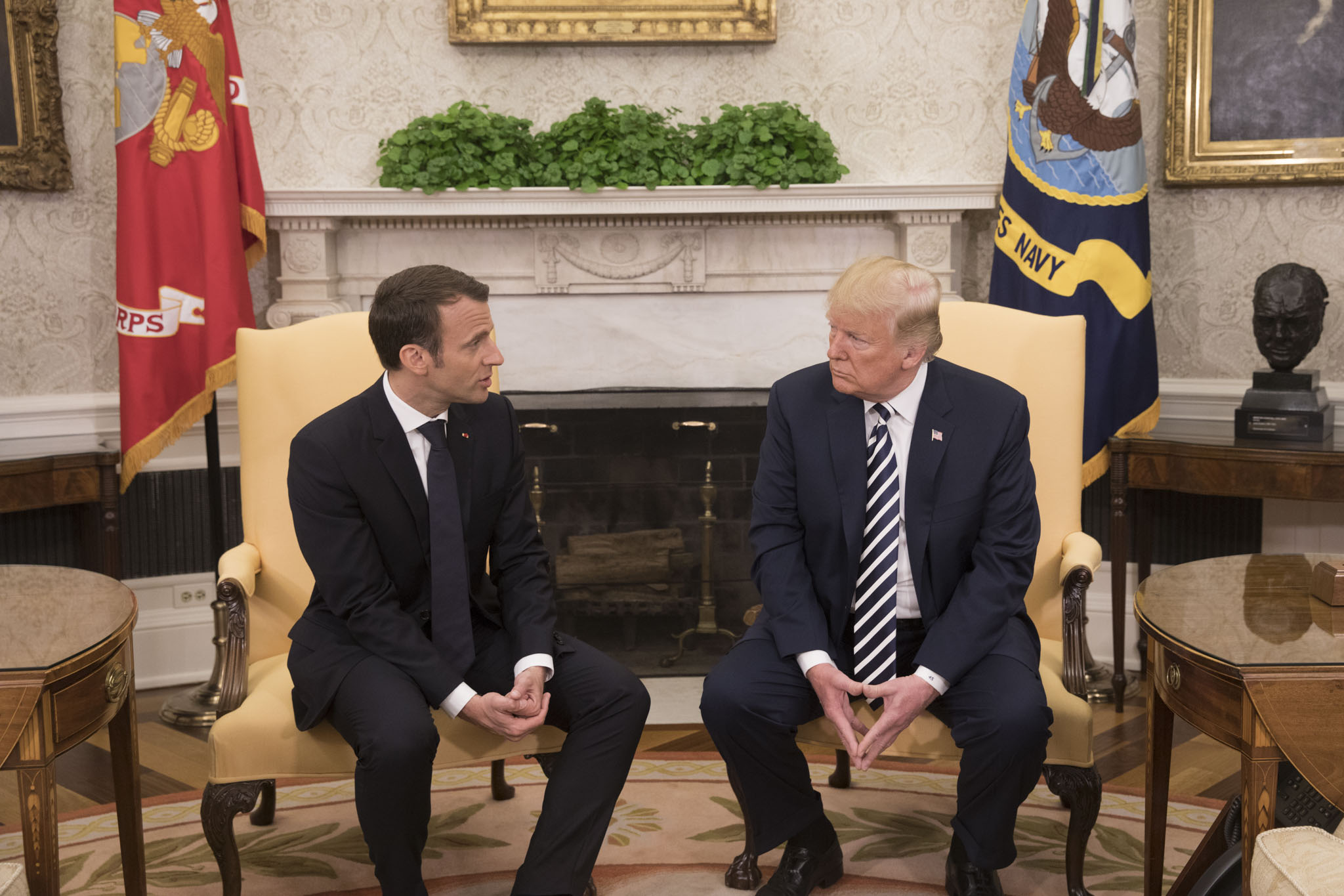 President Trump and President Macron of France (Official White House Photo by Shealah Craighead)